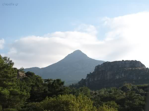 This is a photography of Natura 2000 protected area with ID GR4130001